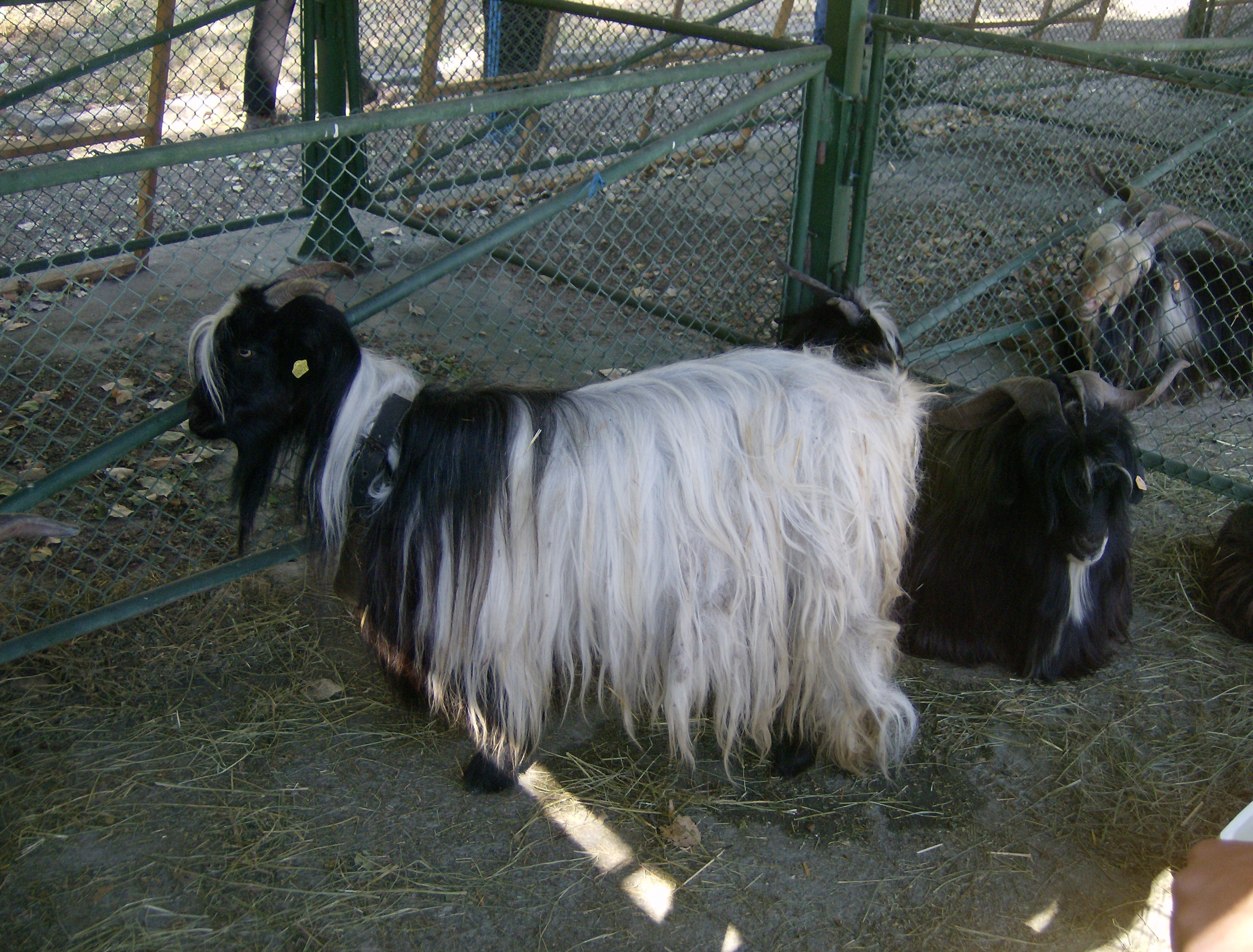 Malashevska goat